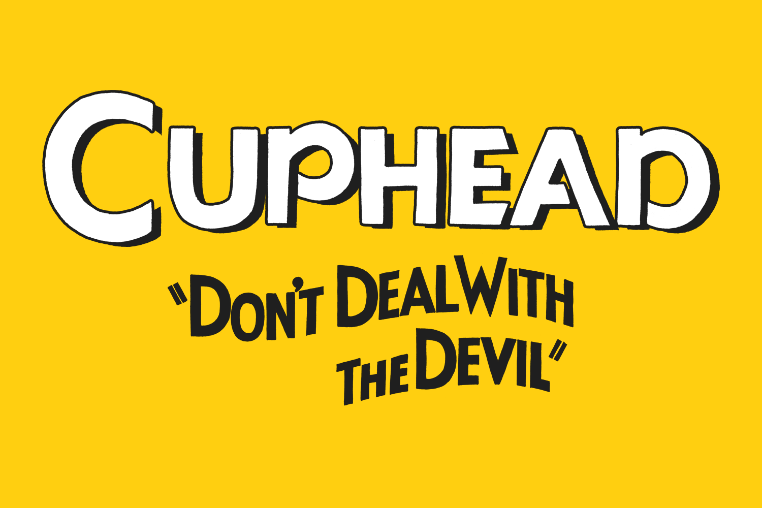 Logo for the video game 'Cuphead' by Candian game studio MDHR.